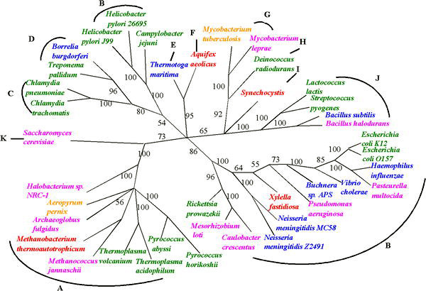 The W-G Tree Based on the Median Tree Algorithm